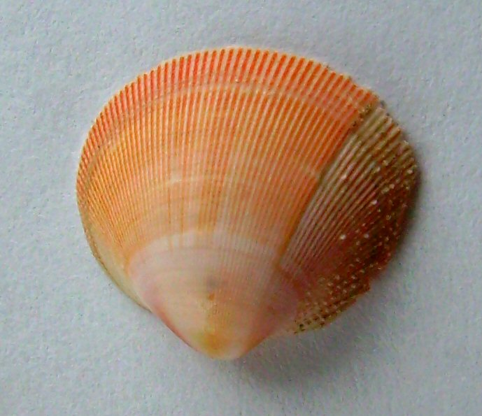 Pratulum pulchellum dredged from north of Pakiri, New Zealand. This work has been released into the public domain by its author, Graham Bould. This applies worldwide.In some countries this may not be legally possible; if so:Graham Bould grants anyone the right to use this work for any purpose, without any conditions, unless such conditions are required by law.